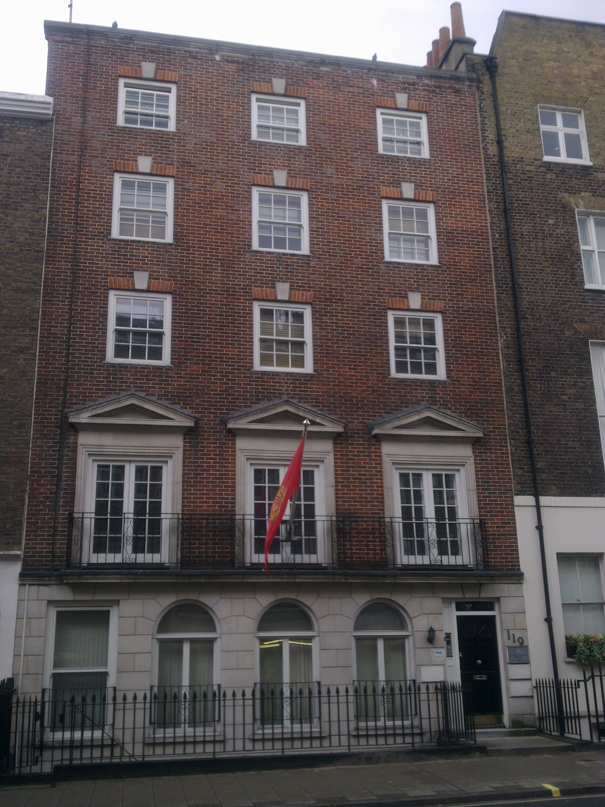 Embassy of Kyrgyzstan 1